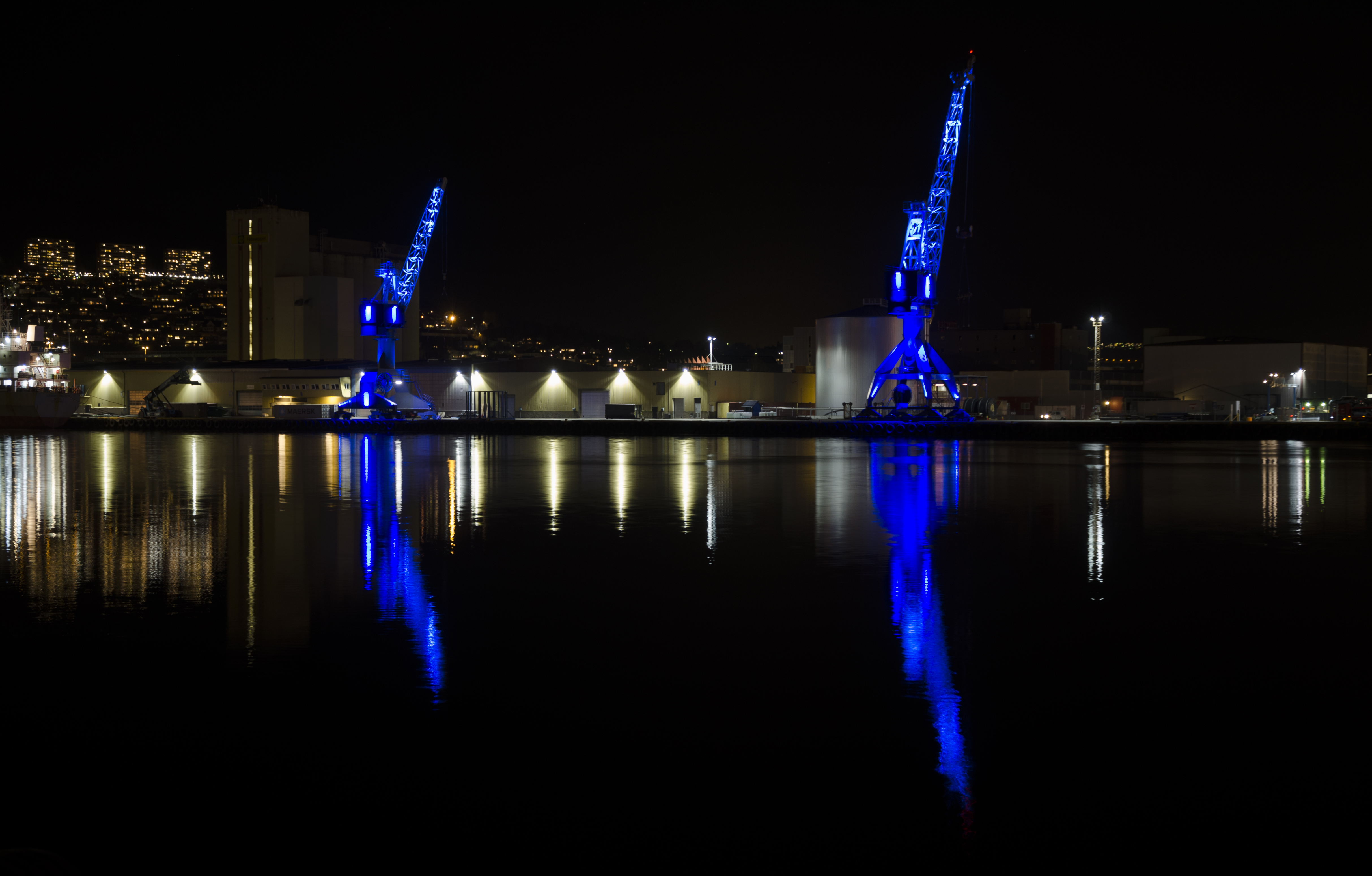 Port cranes in Drammen harbour, illuminated in blue.